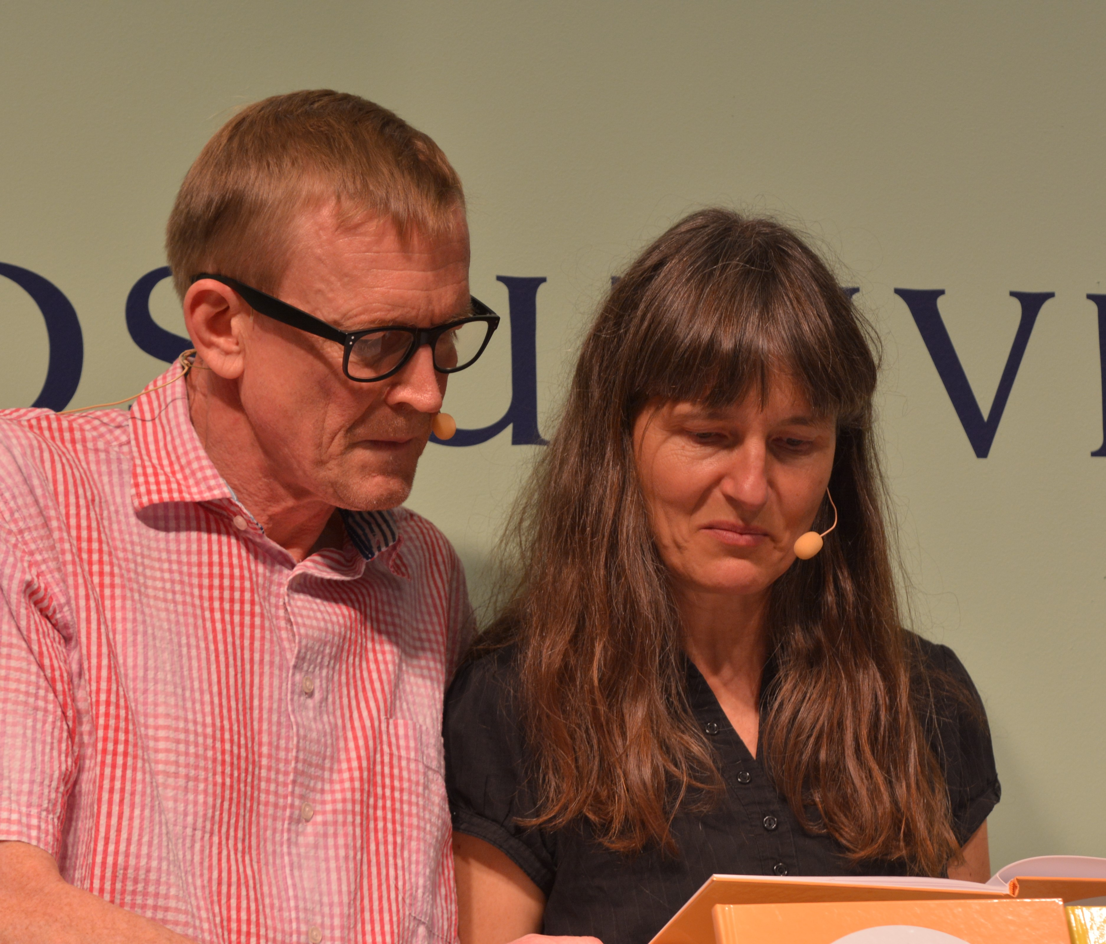 Kyrre Thalberg och Sara Snogerup Linse läser ur en av sina böcker på Bokmässan i Göteborg 2016